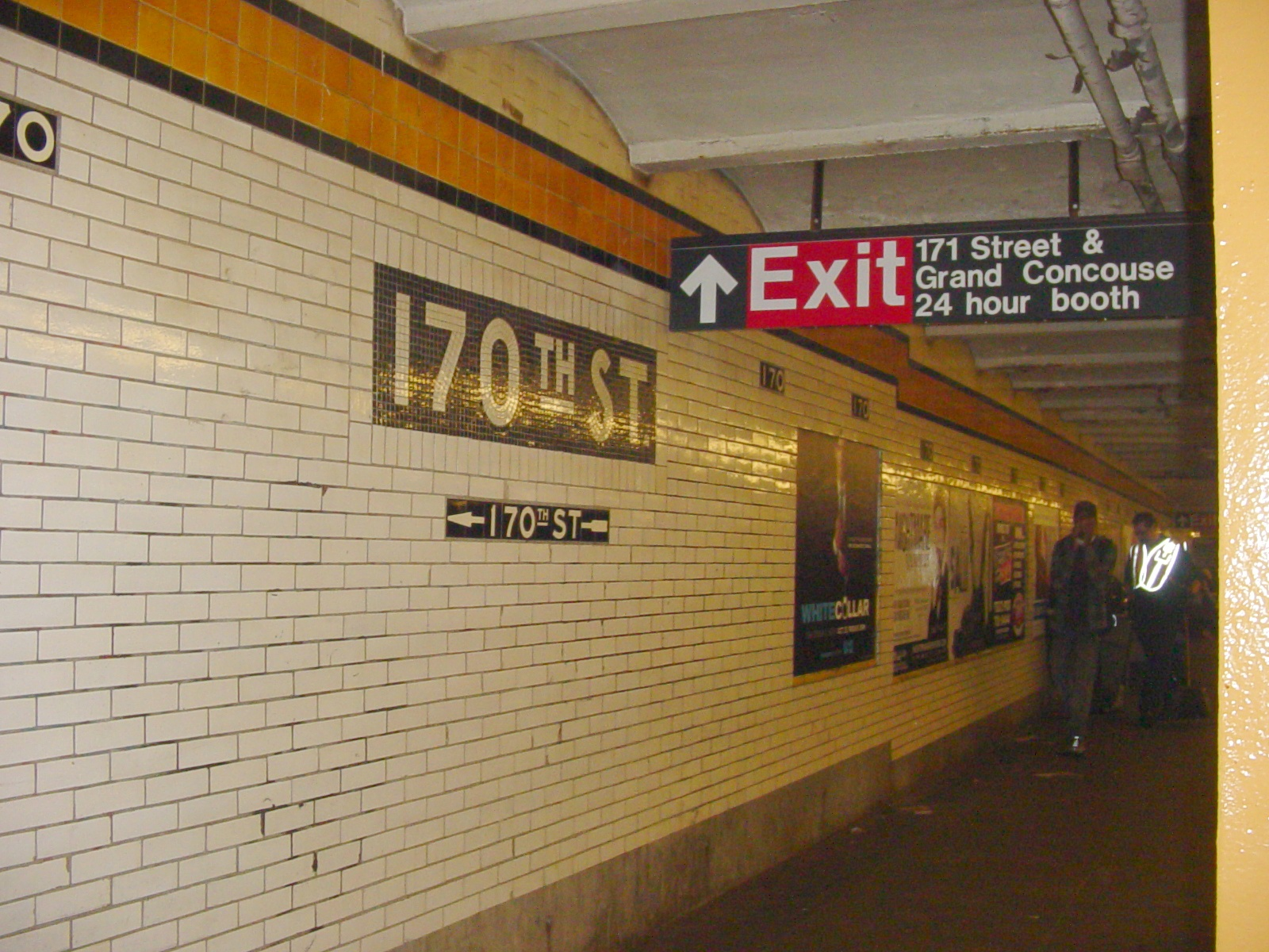 Southbound platform of en:170th Street (IND Concourse Line) station